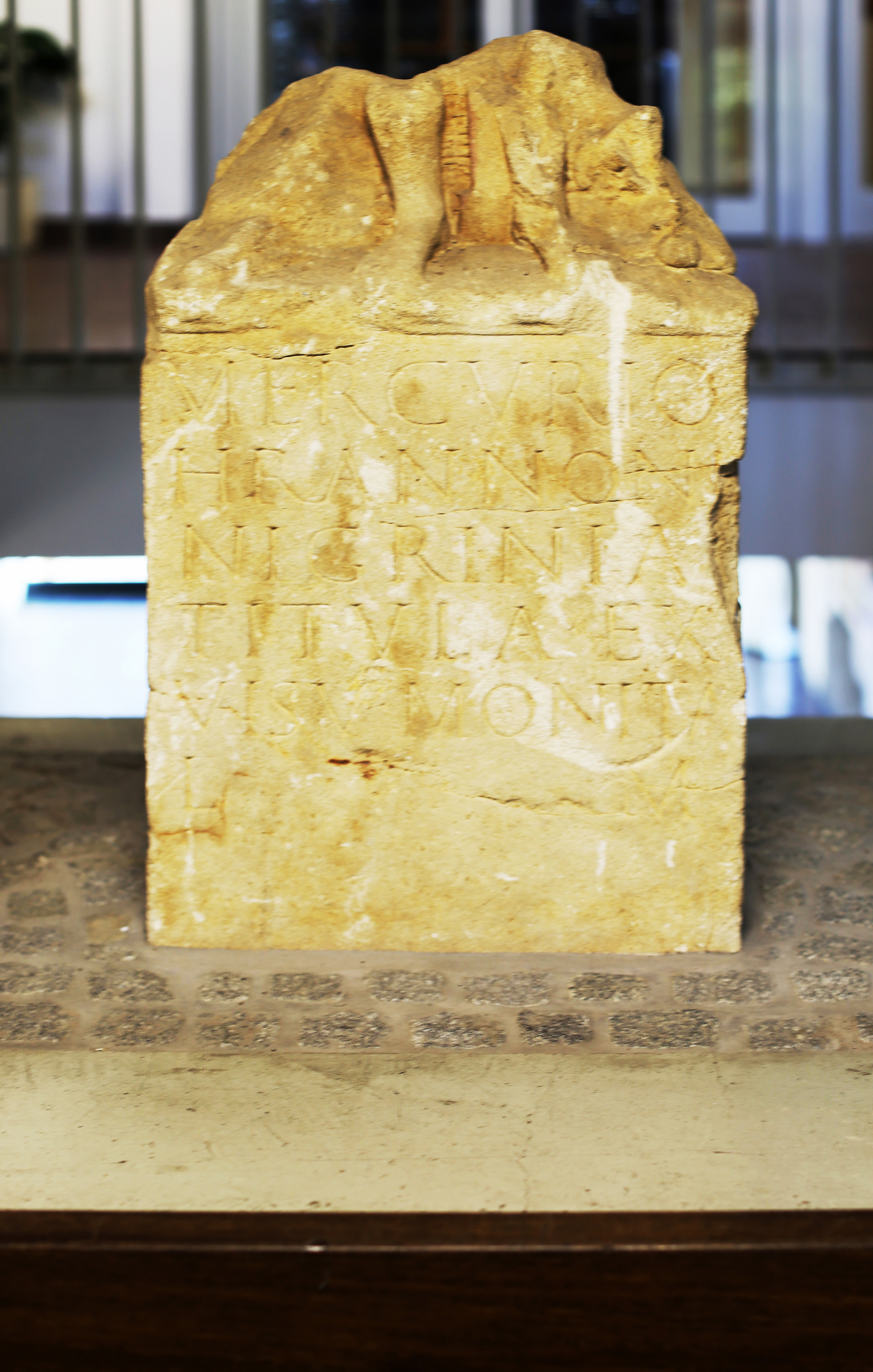 Ancient Roman Inscription in Bornheim, North Rhine-Westphalia, Germany